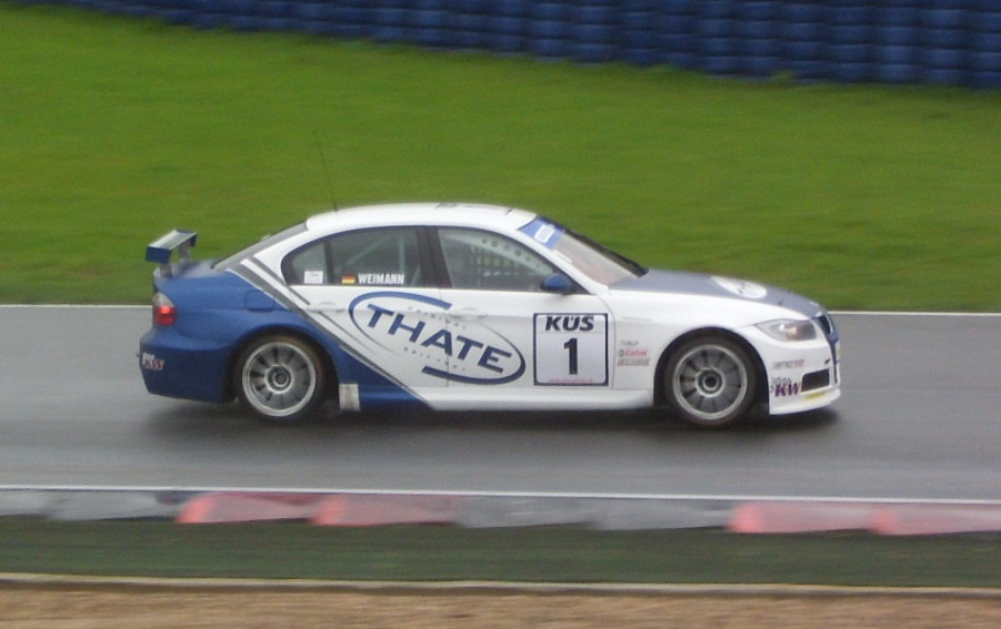 Championship: ADAC Procar; Racetrack: Motorsportarena Oschersleben; Driver: Jens Weimann (Germany); Team: Thate Motorsport; Car: BMW 320si; Point: Saturday morning, second free practise